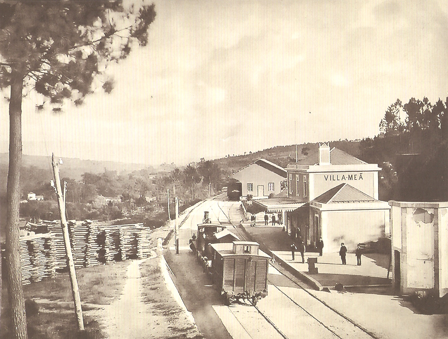 Vila Meã Train Station, in the Douro Railway, in Portugal.